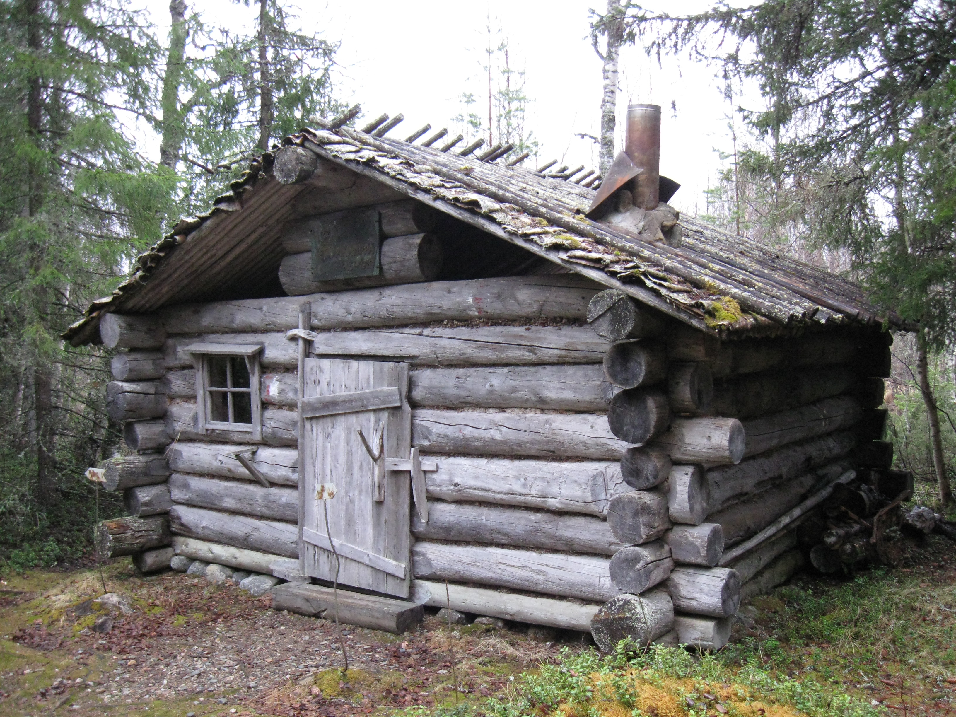 A hut in Simo, Finland, at a place where a fight took place between jäger recruits and officials on December 11th, 1916.